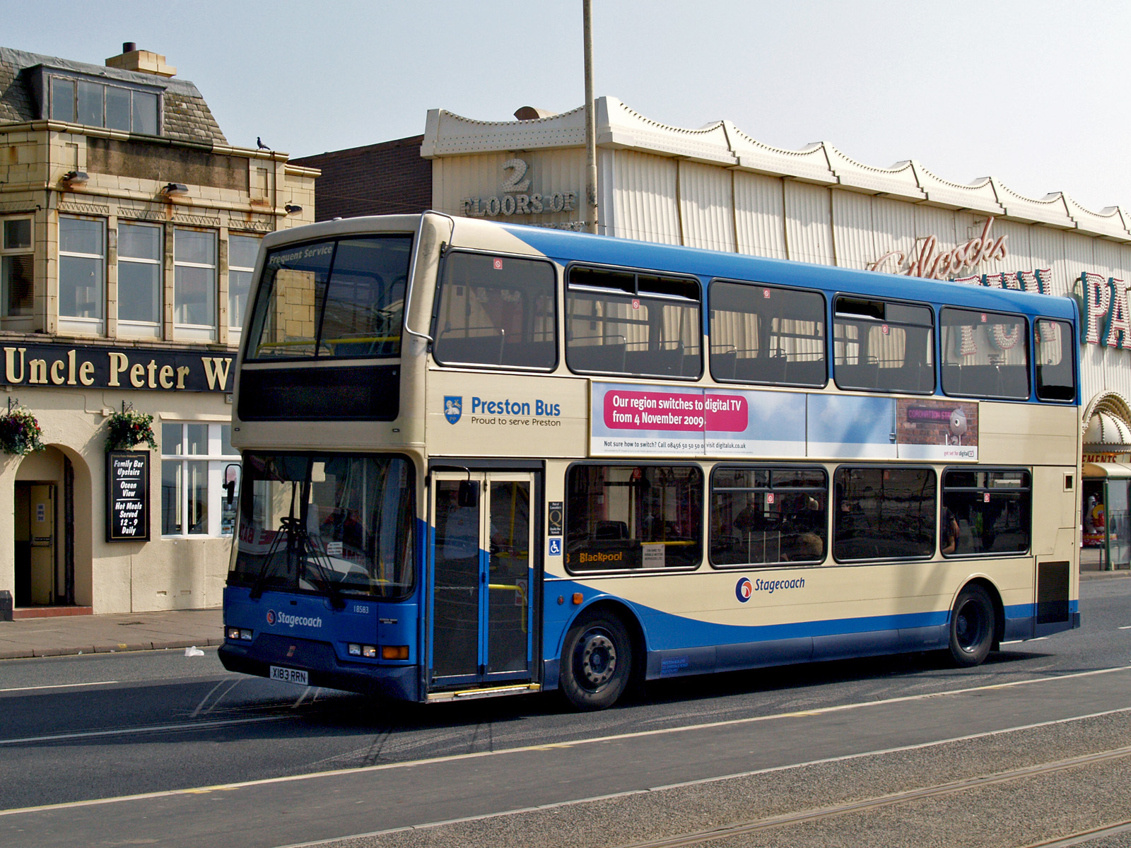 Preston Bus Limited 18583 X183 RRN, a Dennis ‘Trident 2’ built 2000 with an East Lancashire ‘Lolyne’ H40/35F body on the Promenade, Blackpool by the Central Pier with a Preston Bus Station to Blackpool (Cookson Street) via Lytham and St. Annes 68 service. Friday 17th April 2009